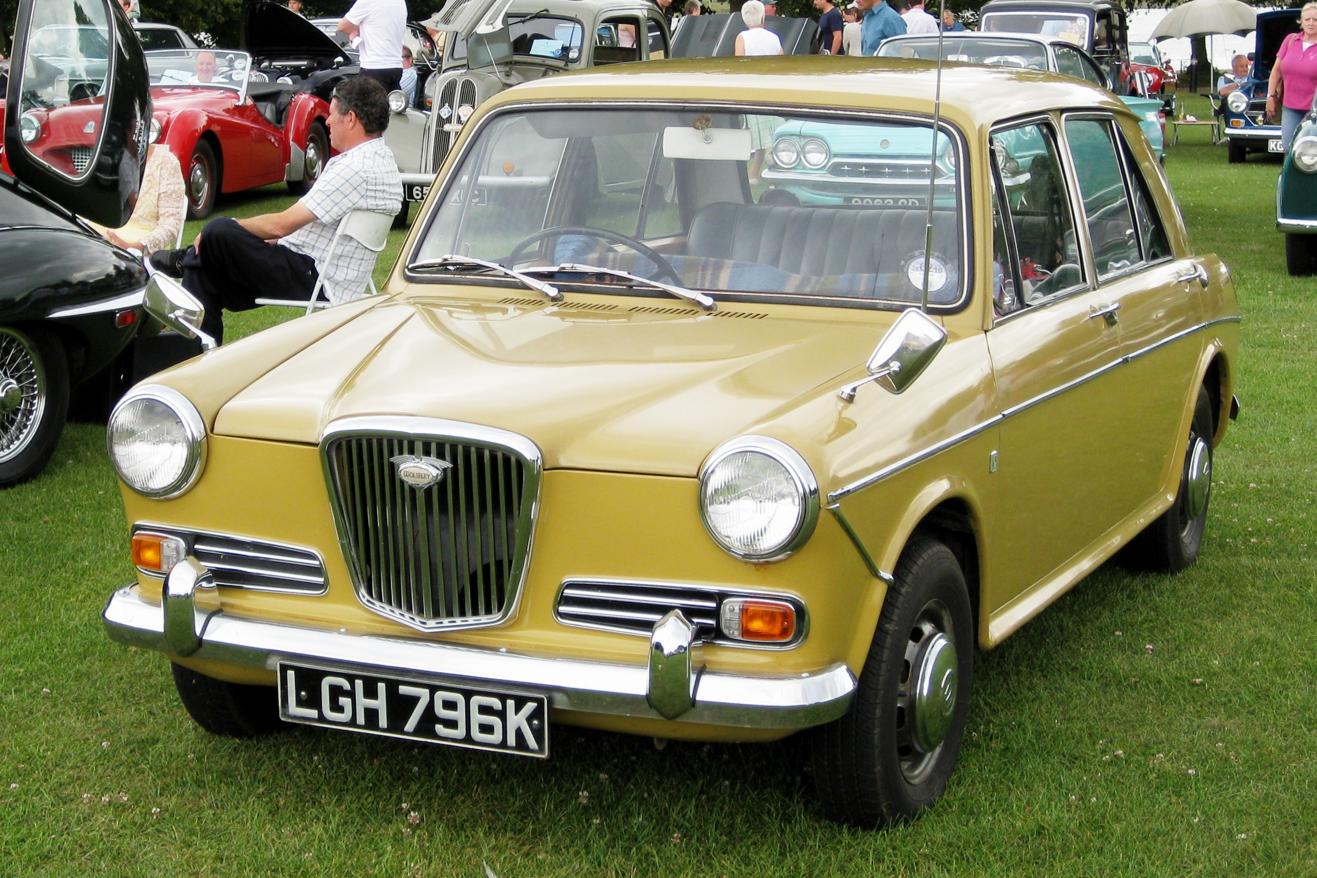 Wolseley 1300 at Maldon